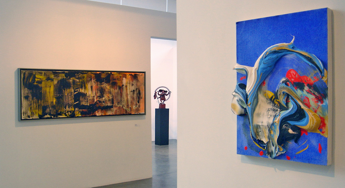 Installation view of the Edmonton Contemporary Artists' Society's 15th Annual Painting and Sculpture Exhibition at Peter Robertson Gallery in 2007.